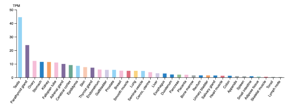 The expression levels of KIAA0895 among tissue samples.